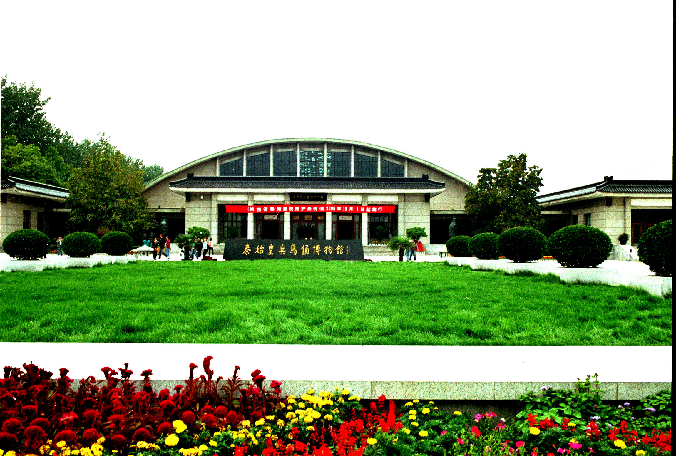 Terracota Museum